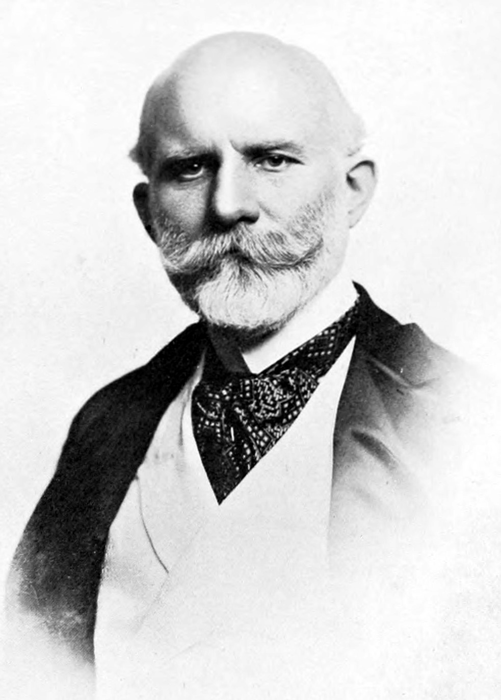 Portrait of Henry Sherman Boutell